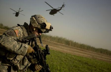 A Soldier from Company C, 4th Battalion, 31st Infantry Regiment, 2nd Brigade Combat Team, 10th Mountain Division (Light Infantry) prepares to perform a foot patrol in Yusufiyah, Iraq, in support of locating three kidnapped U.S. Soldiers on May 20.